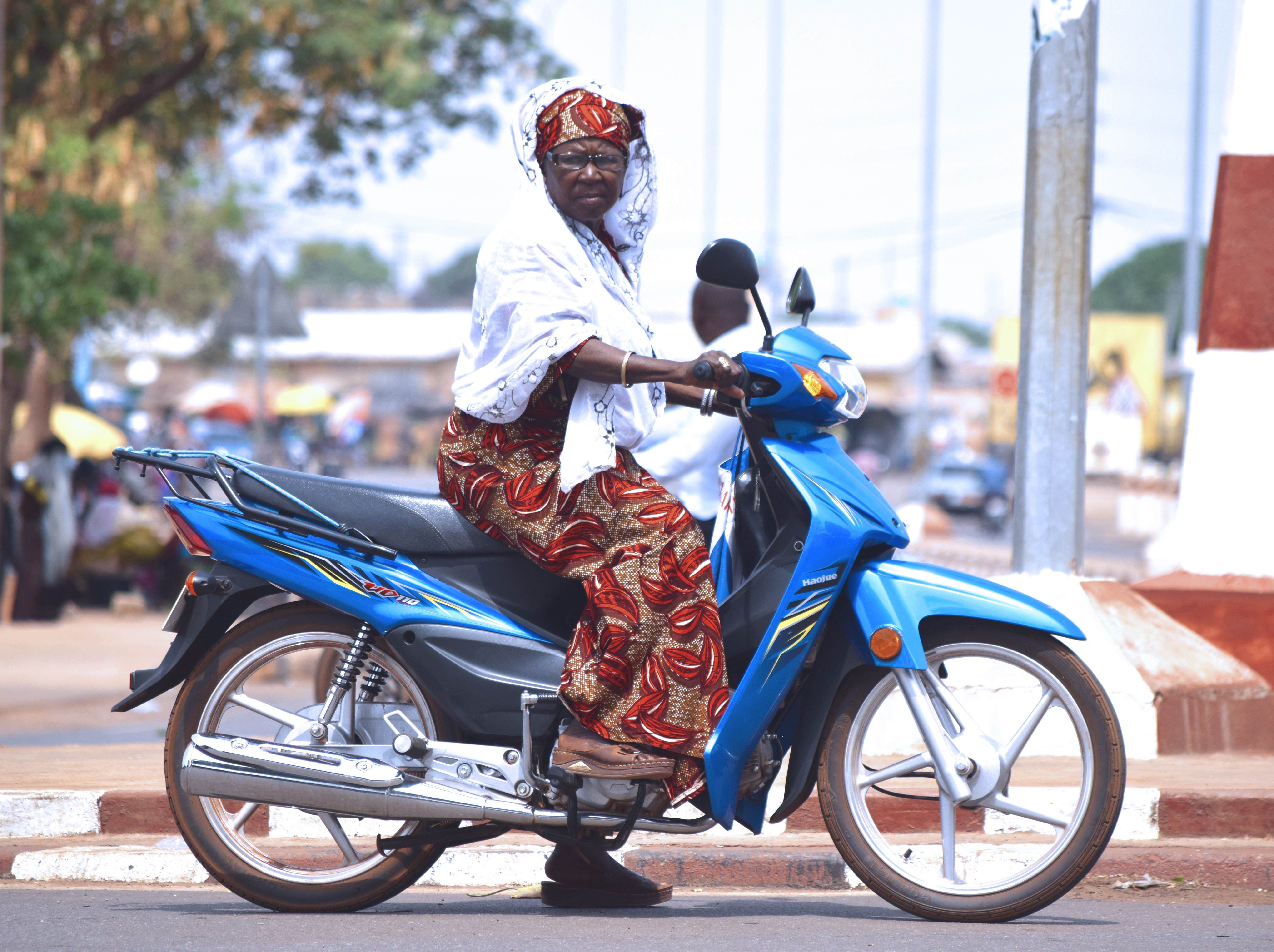 A woman's ability to do the same activities as a man is not related to age. It is possible to keep in line with the dress requirements of tradition or religion and also take advantage of technological advances to advance society.